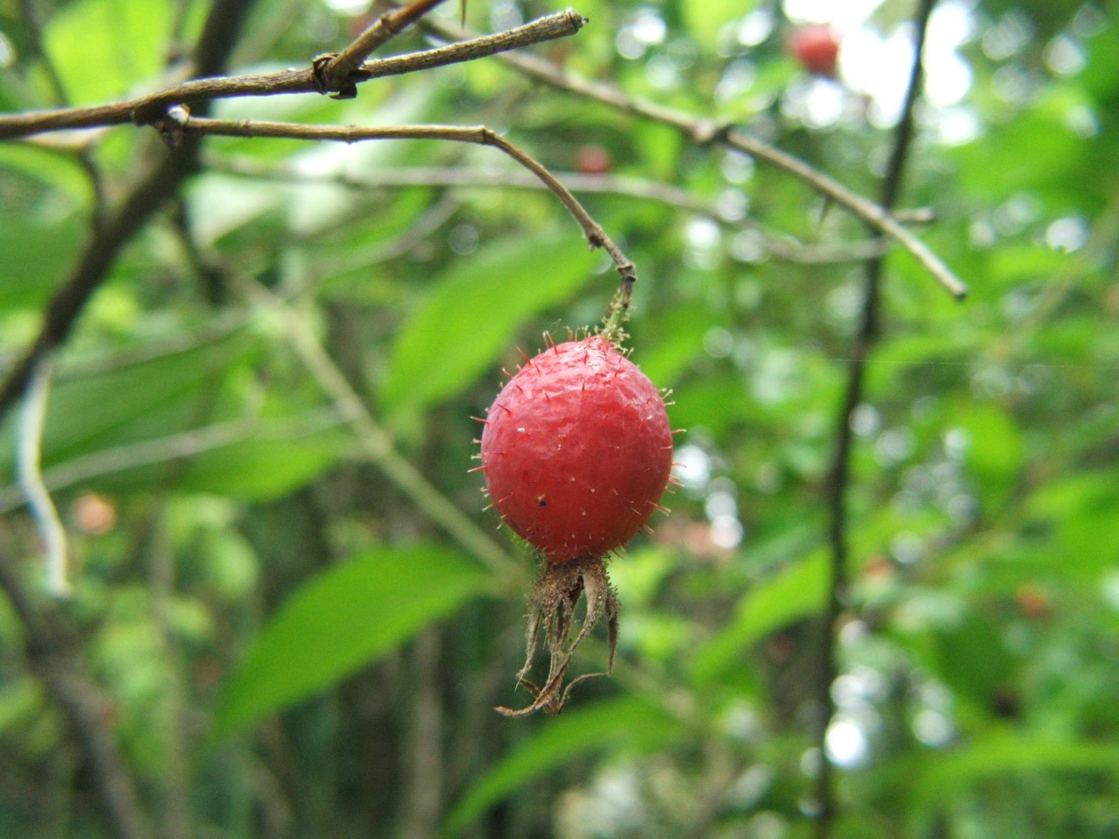 Fruit of Rosa villosa var. sancti-andreae.